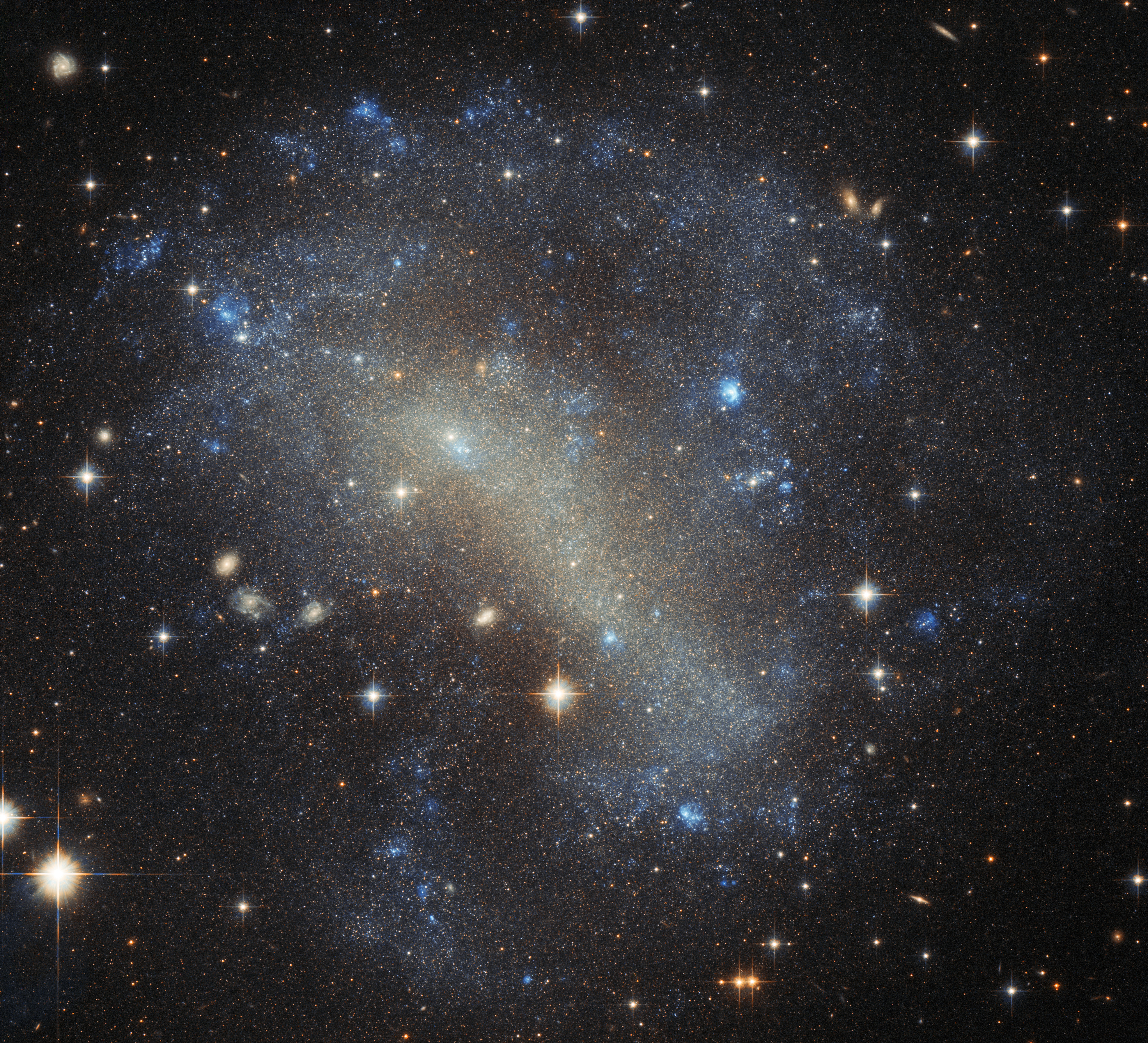 Discovered in 1900 by astronomer DeLisle Stewart and here imaged by the NASA/ESA Hubble Space Telescope, IC 4710 is an undeniably spectacular sight. The galaxy is a busy cloud of bright stars, with bright pockets — marking bursts of new star formation — scattered around its edges. IC 4710 is a dwarf irregular galaxy. As the name suggests, such galaxies are irregular and chaotic in appearance, lacking central bulges and spiral arms — they are distinctly different from spirals or ellipticals. It is thought that irregular galaxies may once have been spirals or ellipticals, but became distorted over time through external gravitational forces during interactions or mergers with other galaxies. Dwarf irregulars in particular are important to our overall understanding of galactic evolution, as they are thought to be similar to the first galaxies that formed in the Universe. IC 4710 lies roughly 25 million light-years away in the southern constellation of Pavo (The Peacock). This constellation is located in the southern skies and also contains the third-brightest globular cluster in the sky, NGC 6752, the spiral galaxy NGC 6744, and six known planetary systems (including HD 181433 which is host to a super-Earth). The data used to create this image were gathered by Hubble’s Advanced Camera for Surveys (ACS).